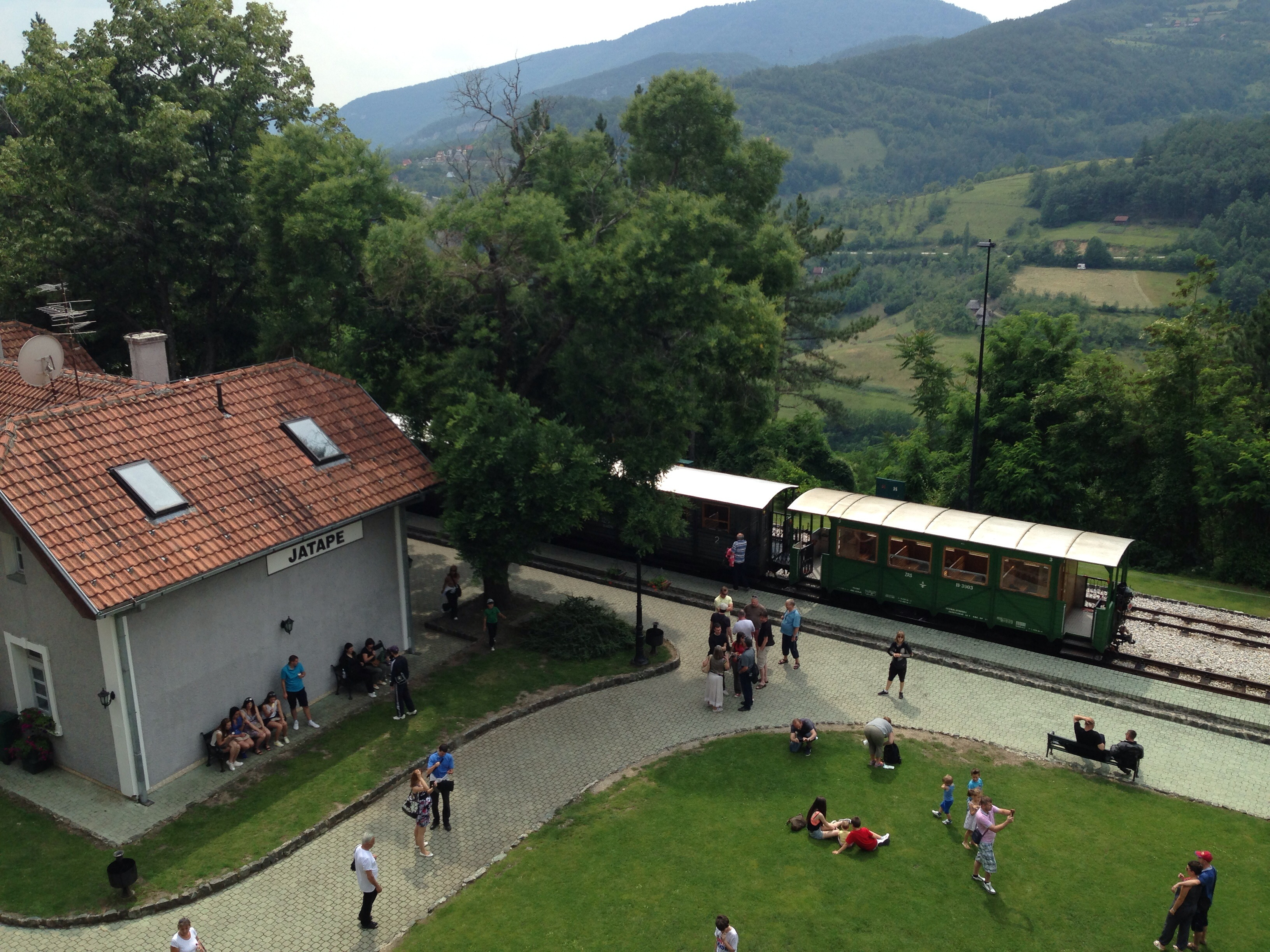 GCERC - Sargan Eight